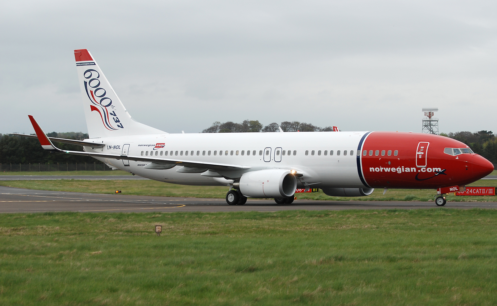 Norwegian Air Shuttle Boeing 737-8Q8 LN-NOL at Edinburgh Airport. This was the 6000th 737 built, this the tail livery.